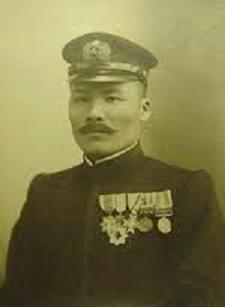 Japanese navy, critic and writer Mizuno Hironori (1875-1945)